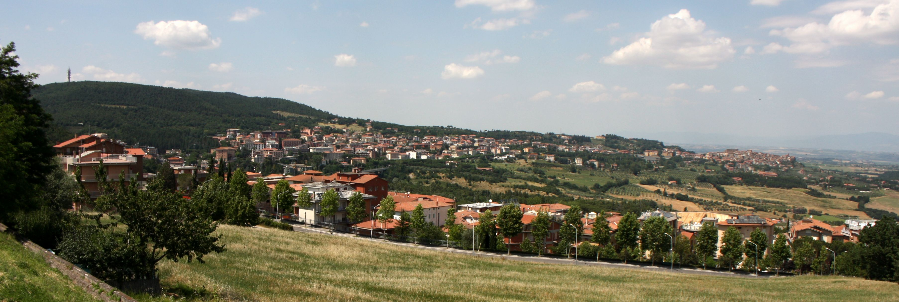 Chianciano Terme Landscape